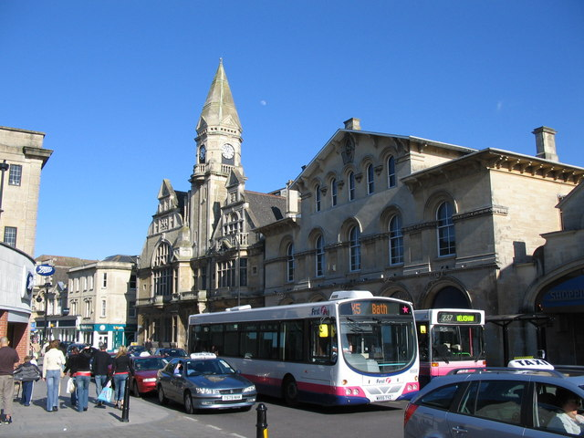 Market Street, Trowbridge A view looking east along Market Street, towards the Town Hall.